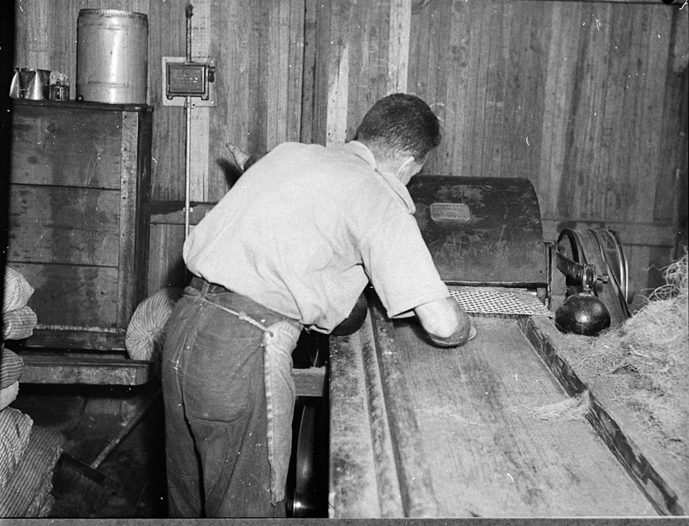 Machine at Adelaide S.S. Co., Balmain (taken for Mervyn Finlay)